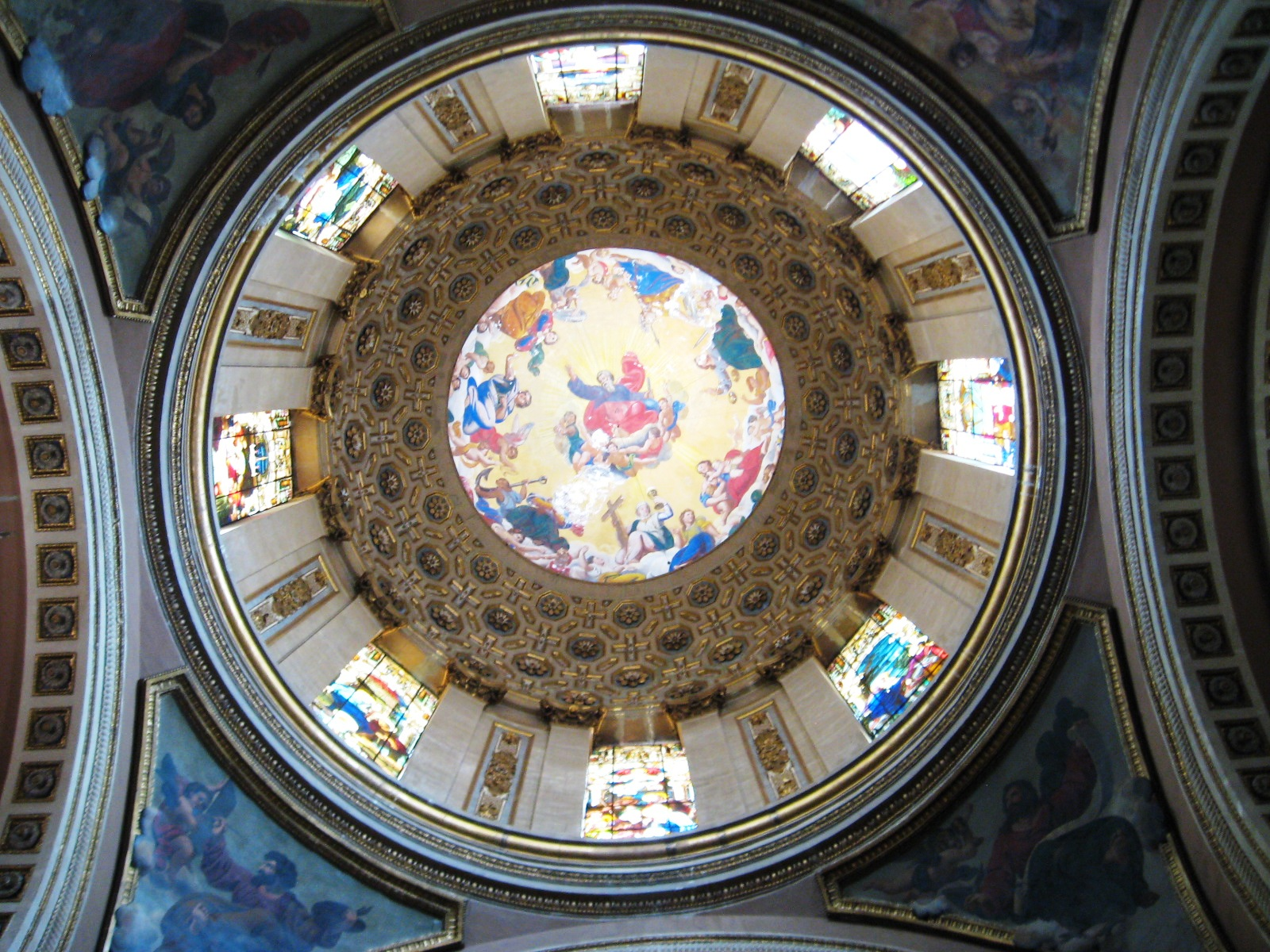 Cupola of the chapel section of the ex convent of Santa Teresa in the historic center of Mexico City